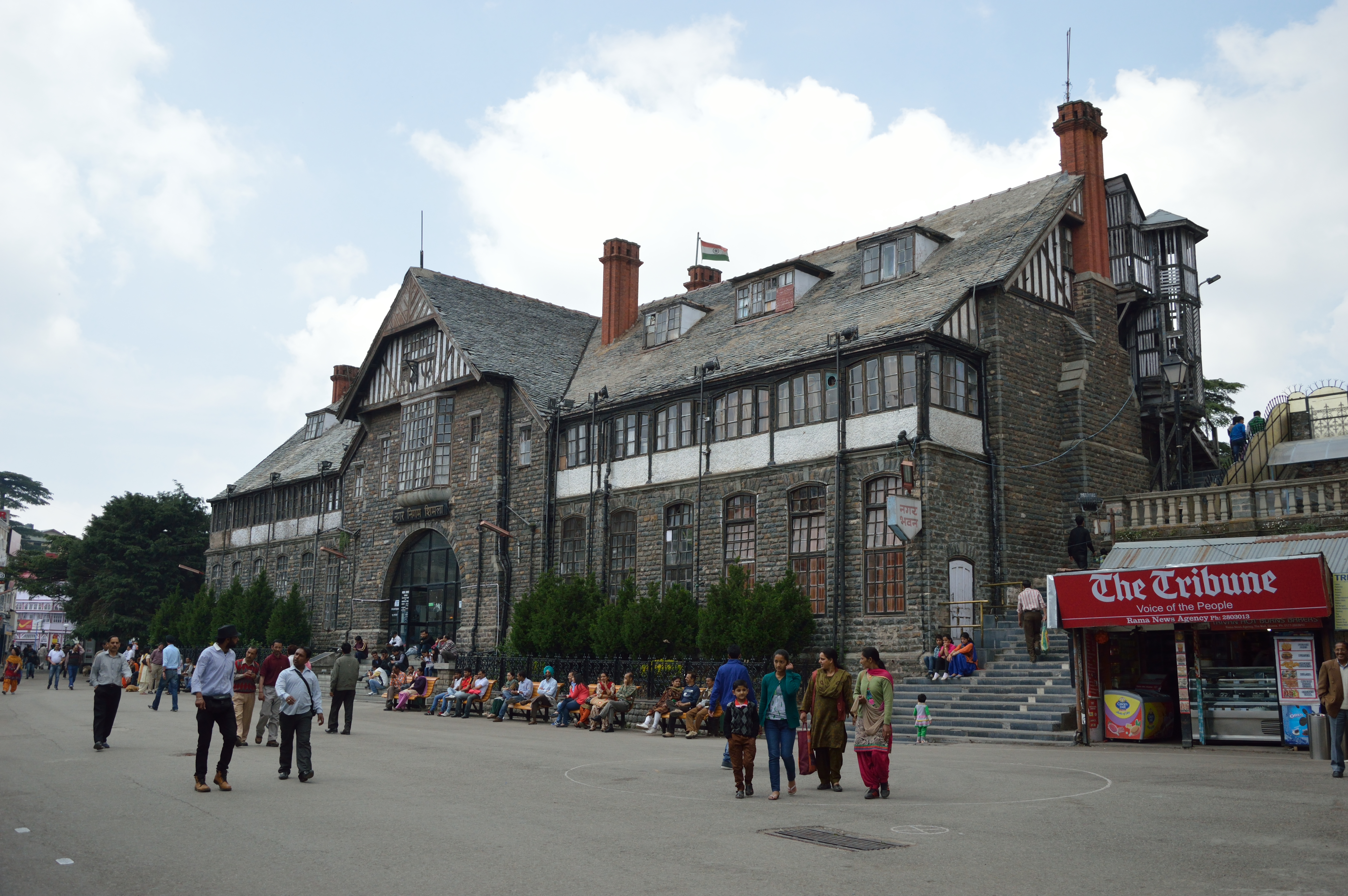 The Municipal Corporation Building in Shimla, on The Ridge. This photograph has been uploaded during the 'Wiki Loves Monuments 2014' from India.